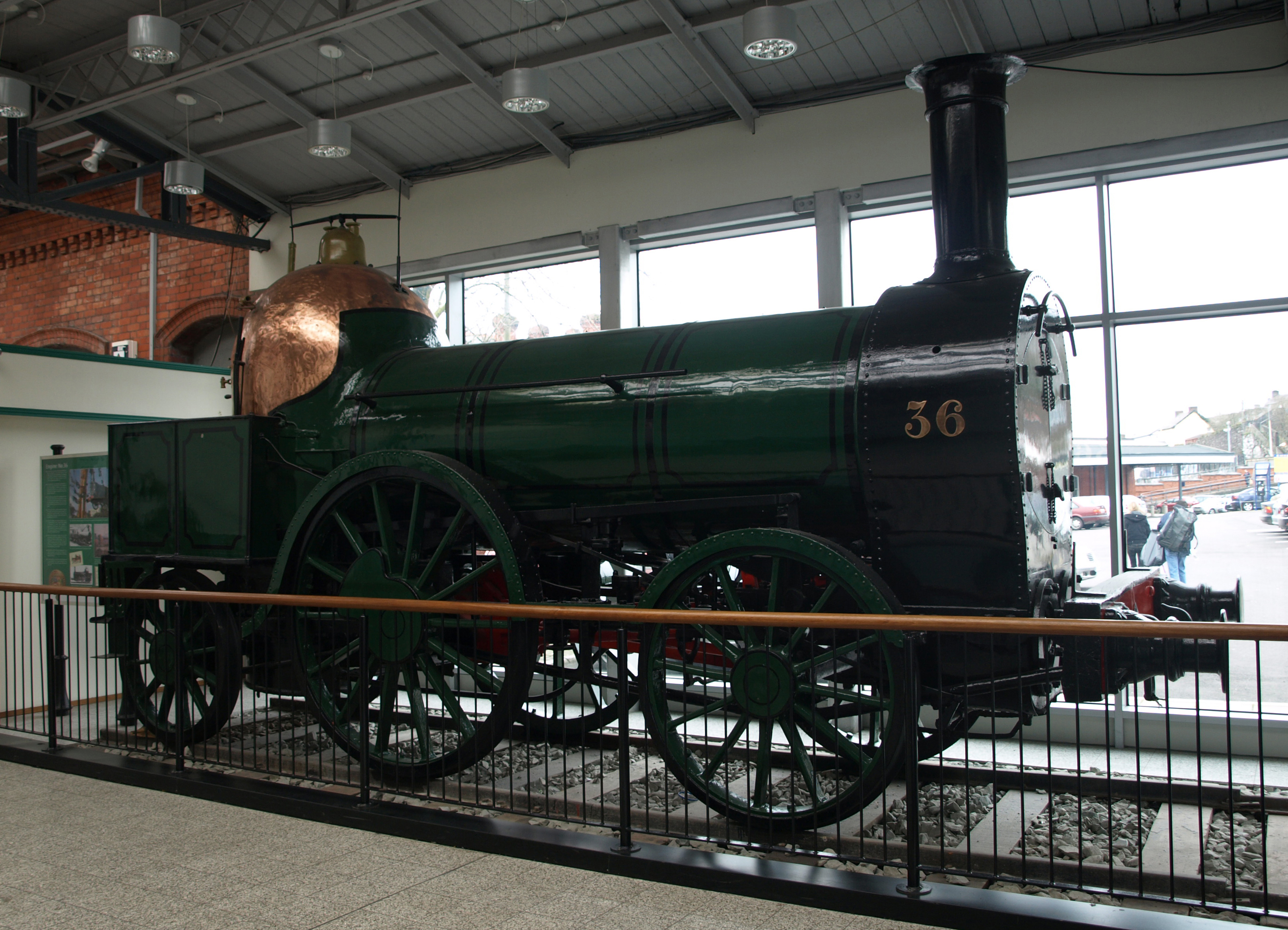 GS&WR 2-2-2 steam locomotive no. 36 on display at Cork Kent railway station, Ireland